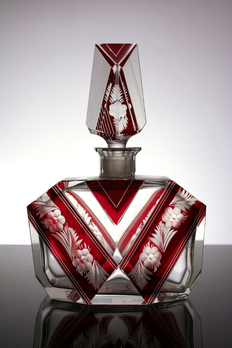 Crech art deco carafe